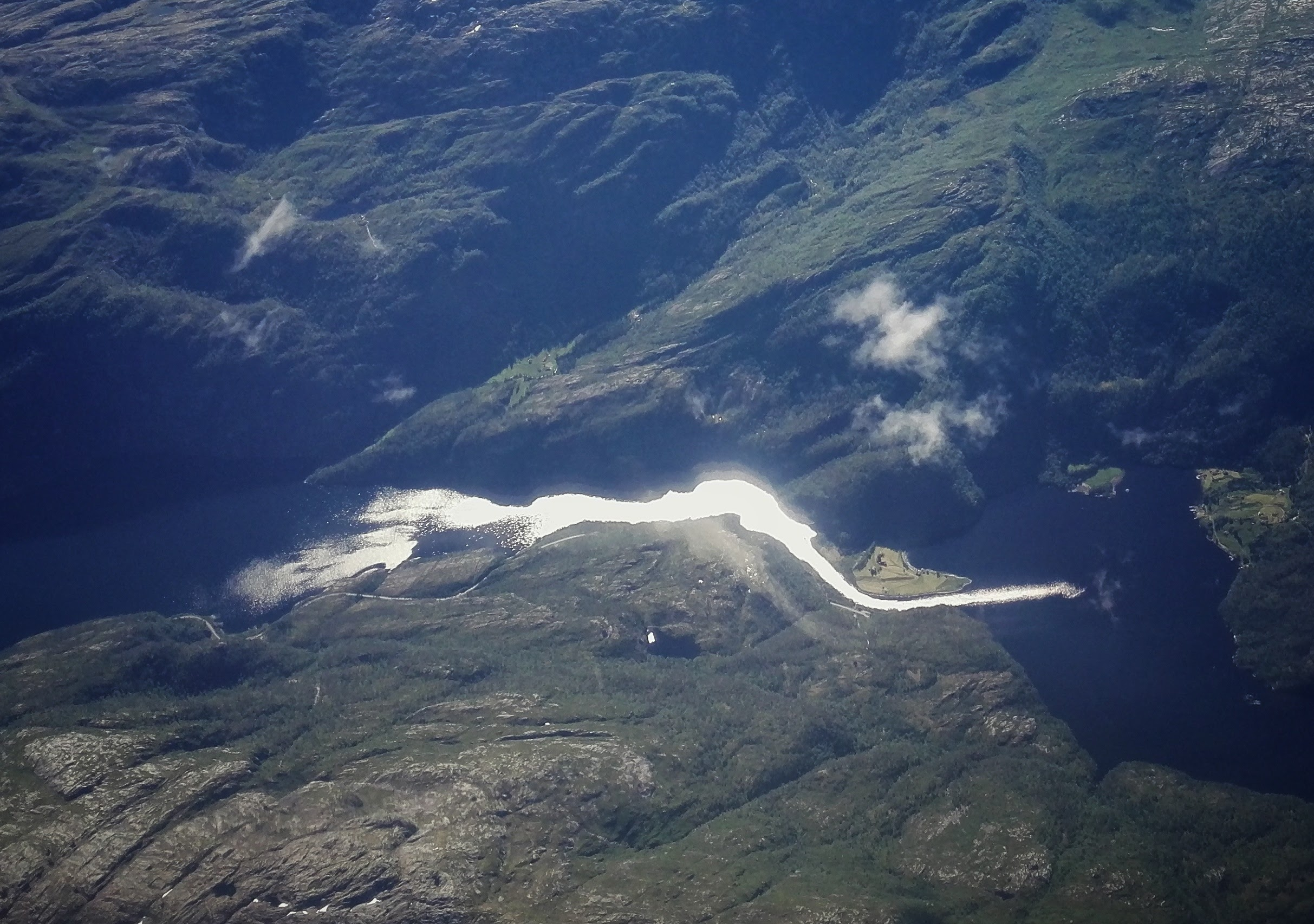 The sun mirroring in Mostraumen, Modalen, Hordaland, Norway. Seen from a Widerøe flight from Bergen to Bodø July 4th 2017.